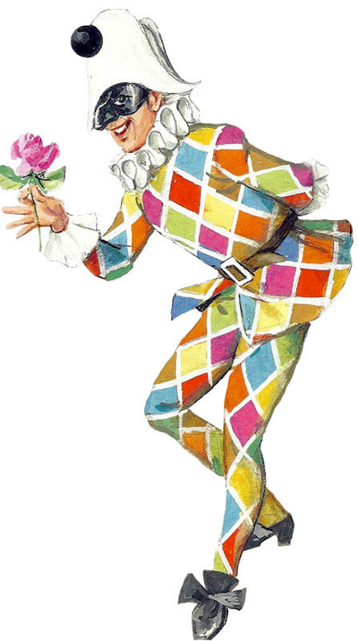 Harlequin, in a nineteenth-century print